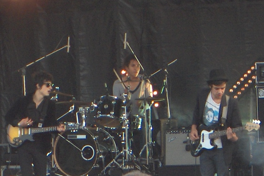 BB Brunes at the Festival des Terre-Neuvas in Bobital, France, 2007